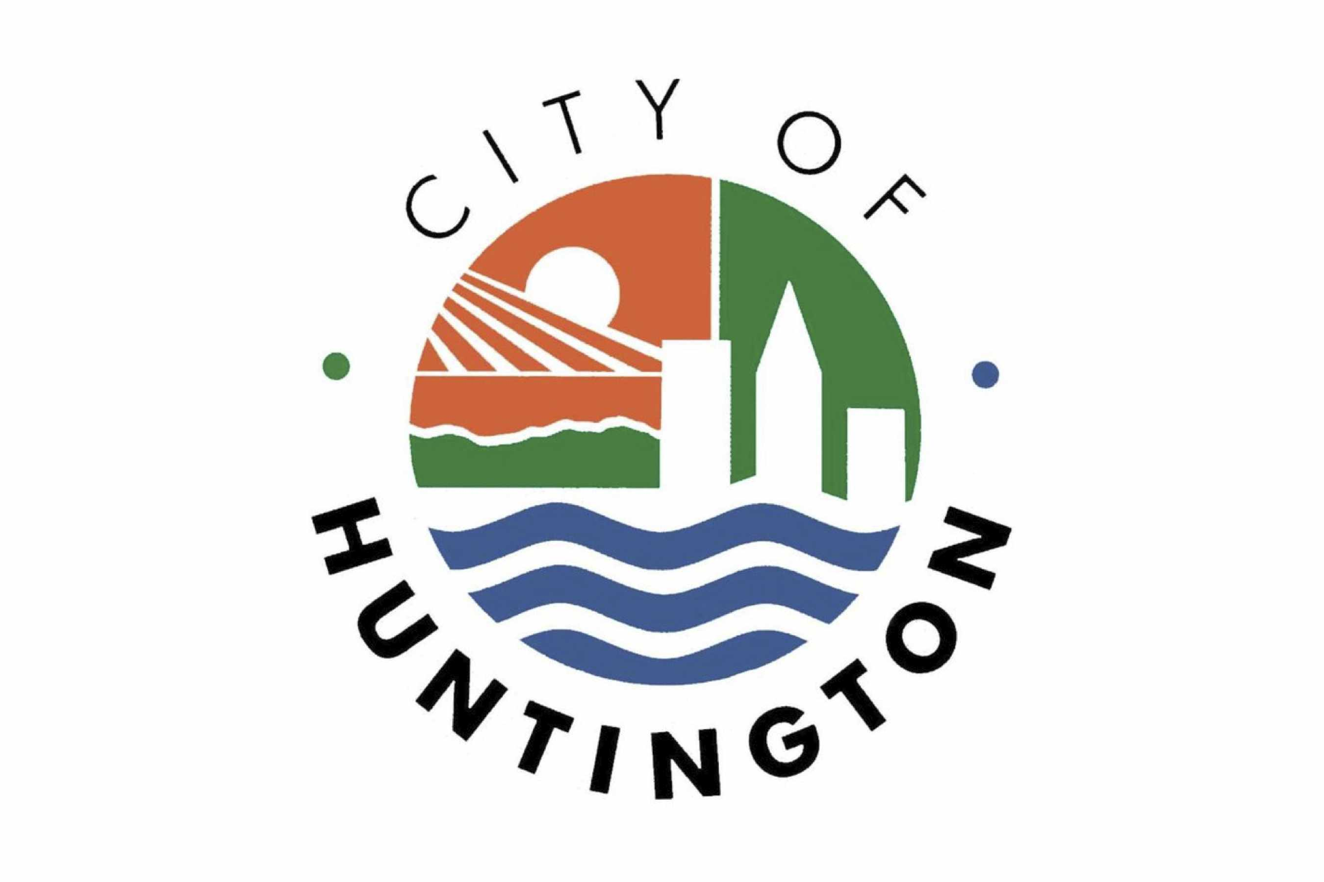 The city flag of Huntington, WV.